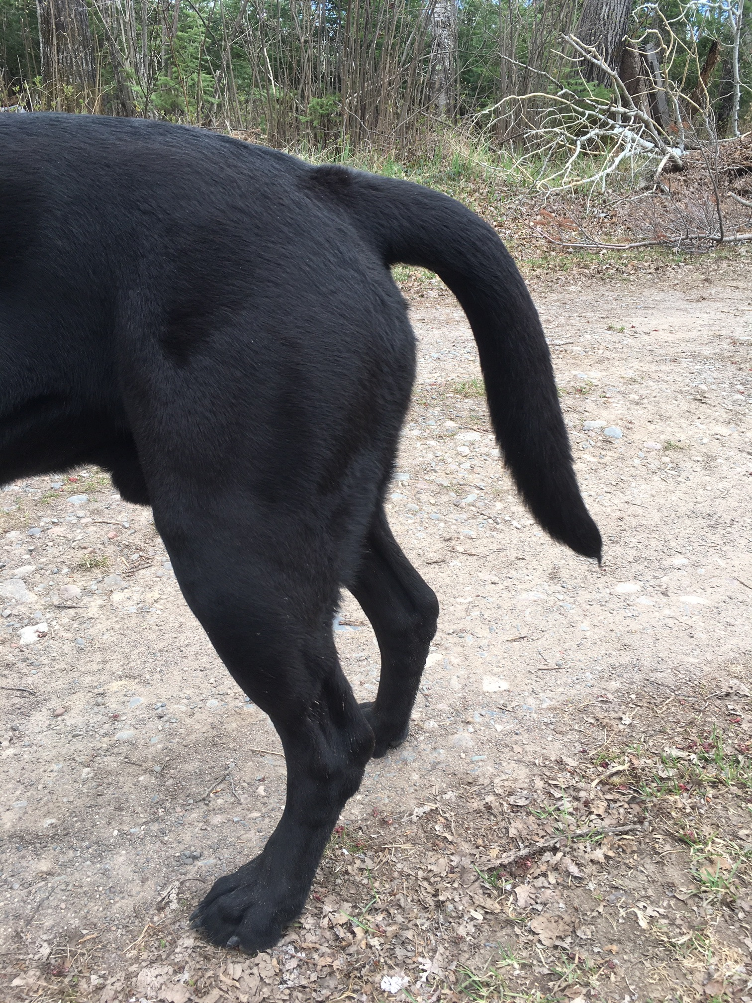 A Labrador Retriever with Limber Tail Syndrome after prolonged swimming in a cold lake the previous day.